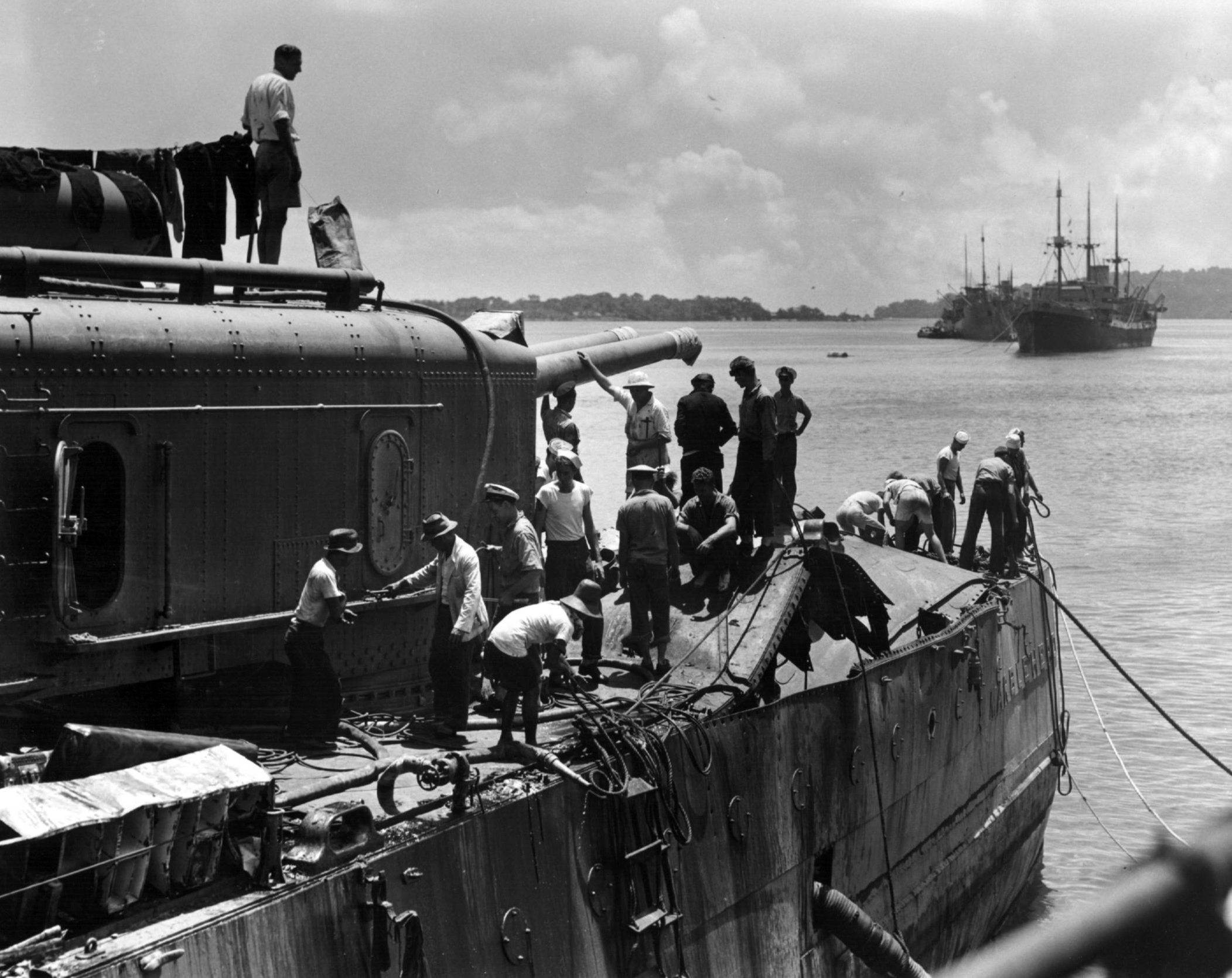 The U.S. Navy light cruiser USS Marblehead (CL-12) at Tjilatjap, Java, in February 1942, after she had been damaged by Japanese high-level bombing attack in the Java Sea on 4 February 1942 in the Battle of Makassar Strait. This view shows the effect of an enemy bomb which struck her stern. Her after 6"/53 gun turret is at left. Note the blanked off portholes on her hull side.